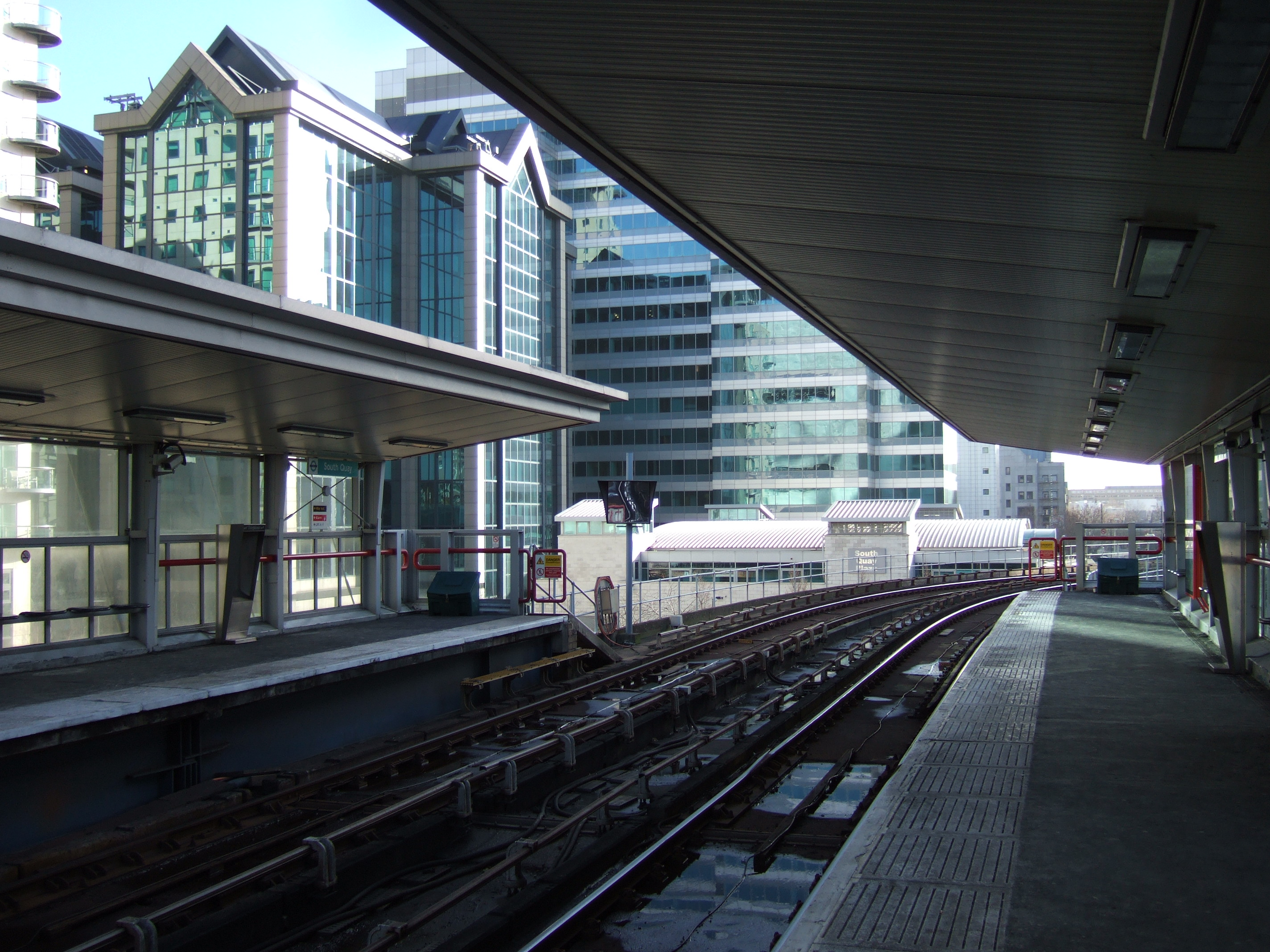 South Quay DLR station